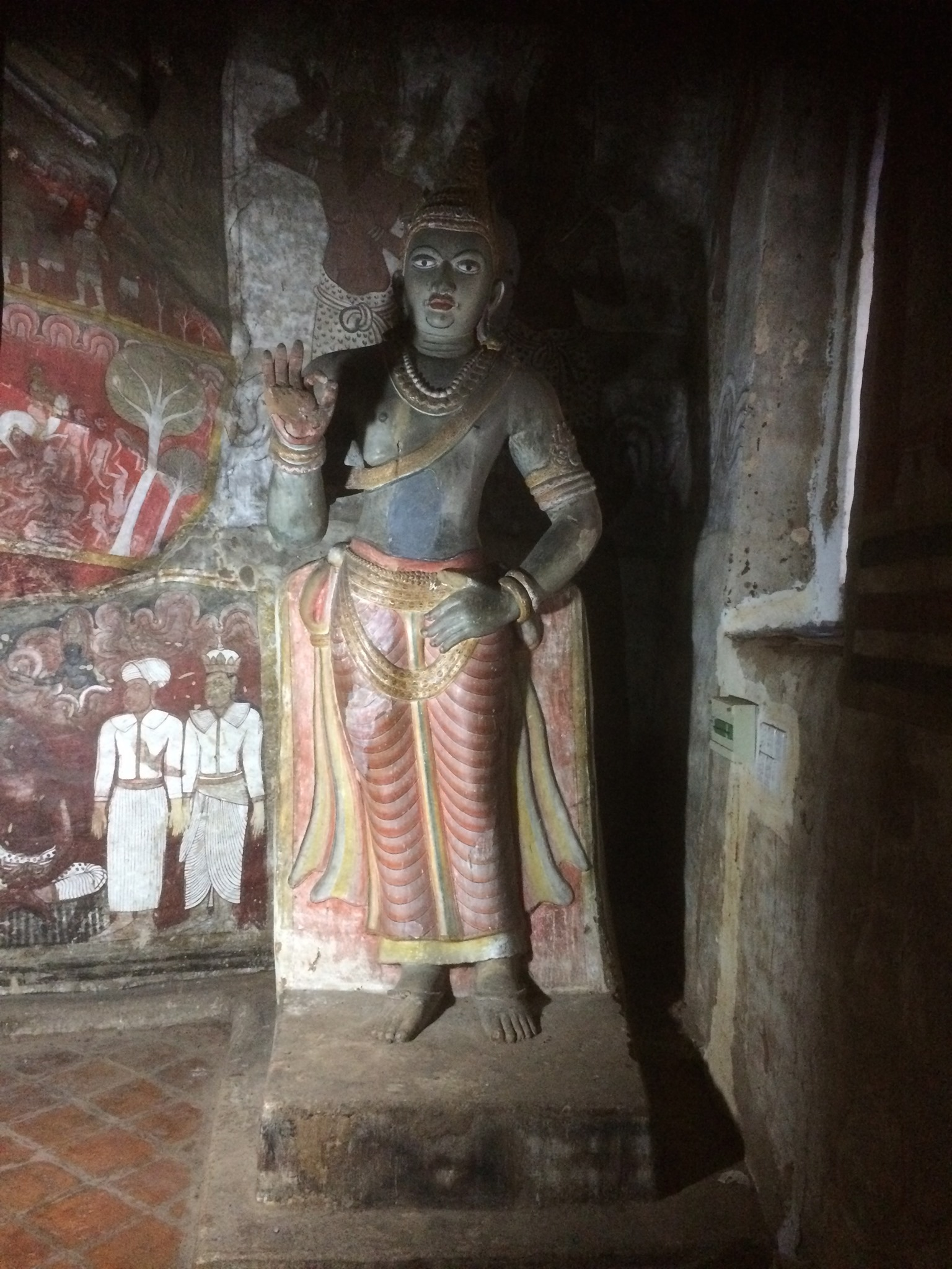 Statue of King Nissanka Malla of Sri Lanka located in Dambulla cave temple, Sri Lanka